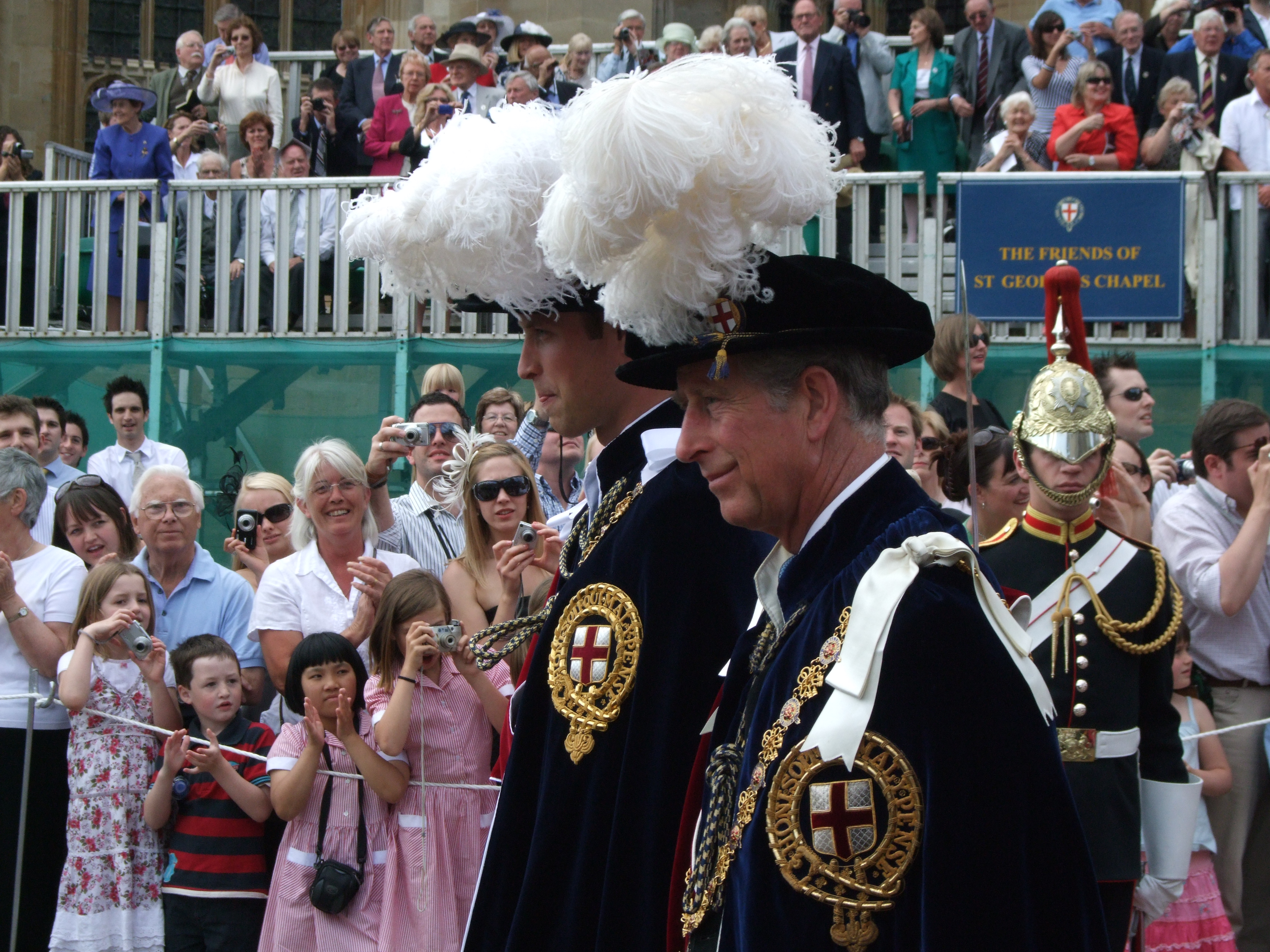 Prince Charles and Prince William